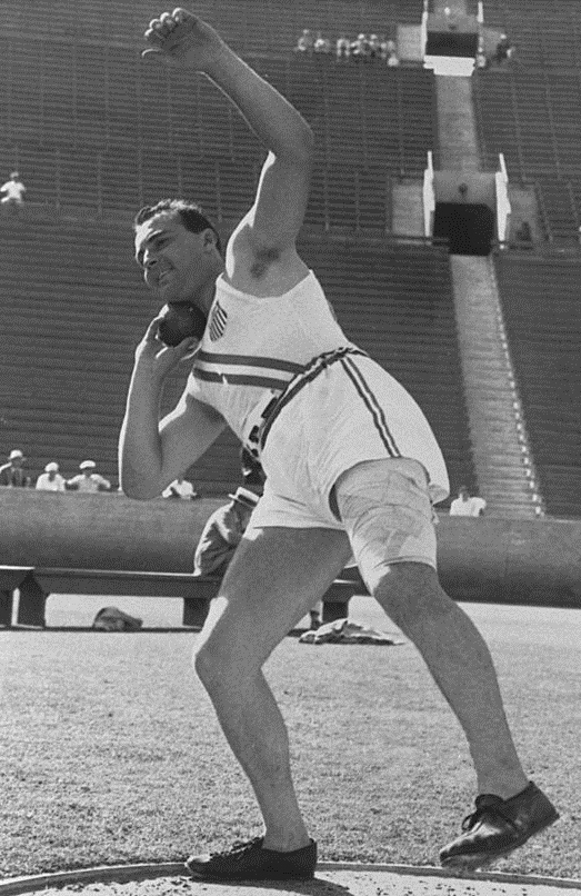 Leo Sexton of the USA in action during the Shot Putt event at the 1932 Olympic Games in Los Angeles, USA. Sexton won the gold medal with a throw of 16.005 metres